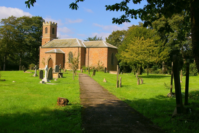 Parish Church of St John of Beverley, Wressle, East Riding of Yorkshire, England, seen from the southeast.